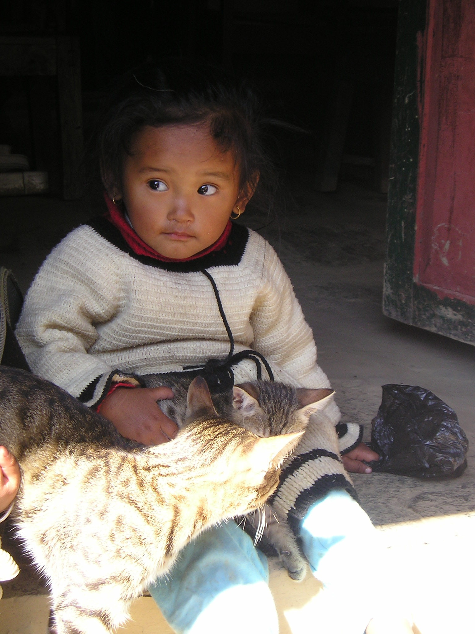 A child playing with a cat. Photo taken in Nepal.